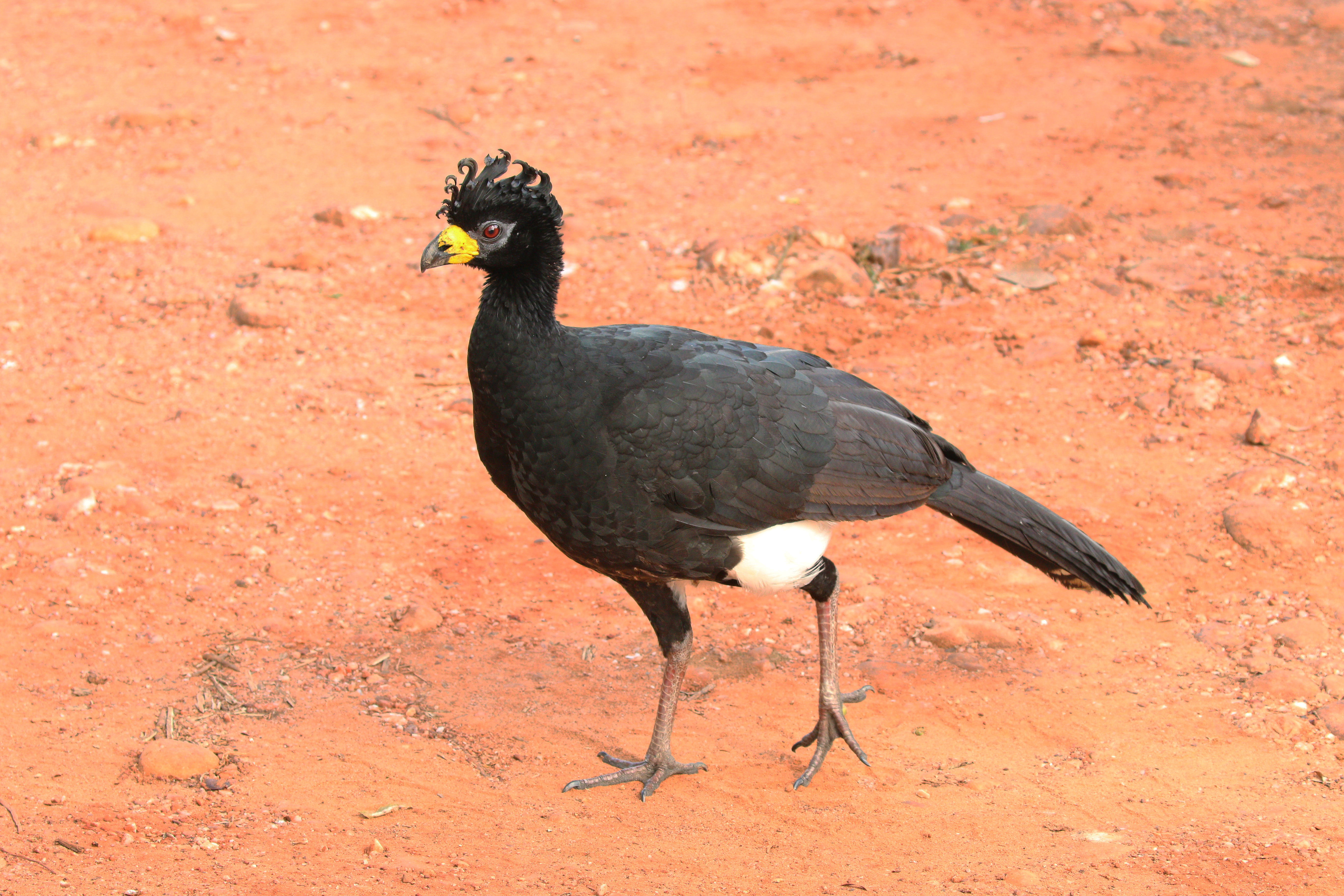 Bare-faced curassow (Crax fasciolata) male, Pantanal, Brazil